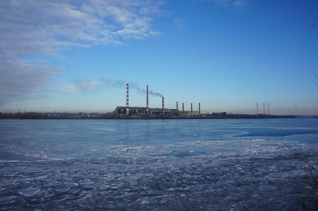 Prydniprovsk Power Plant in Dnipropetrovsk